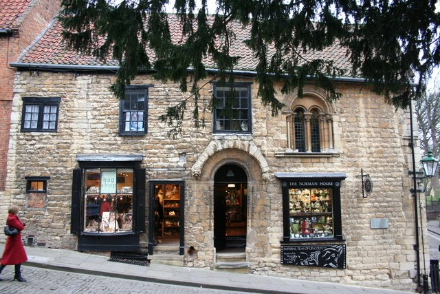 Norman House Now called 'Norman House' this is one of the oldest buildings in Lincoln. It used to be called "Aaron the Jew's House" as it was popularly thought to be the home of the rich Aaron the Jew who certainly lived in 12th century Lincoln and died in 1186. This wonderful grade I listed building is pre-1186 so the story isn't so unlikely !